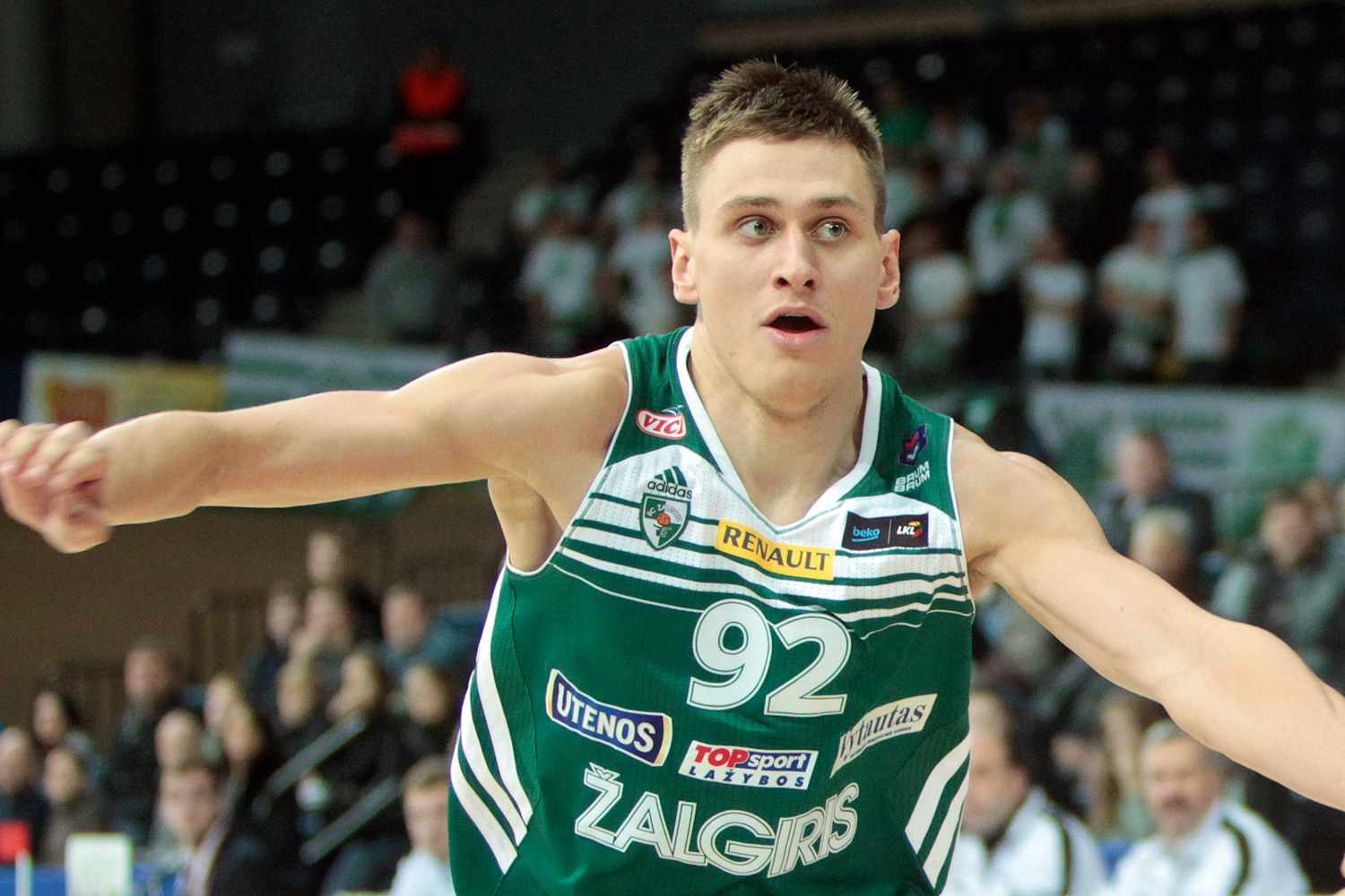 Basketball player Evaldas Ulanovas